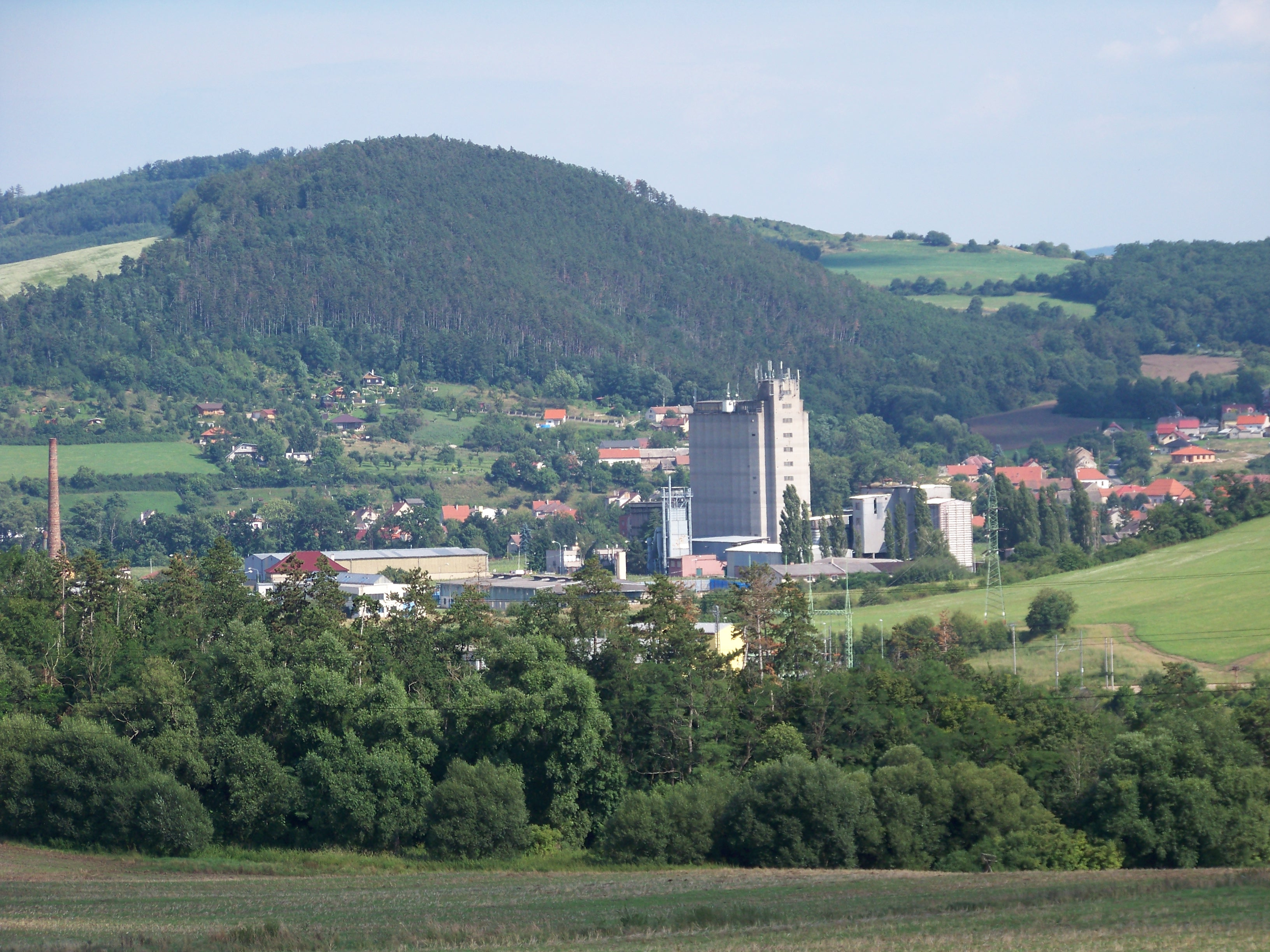 Zdice and Chodouň, Beroun District, Central Bohemian Region, the Czech Republic. A view from Knížkovice.